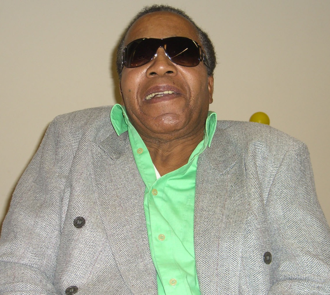 Former drug lord turned entrepreneur Frank Lucas at the November 2008 Big Apple Convention in Manhattan. This photo was created by Luigi Novi. It is not in the public domain, and use of this file outside of the licensing terms is a copyright violation.